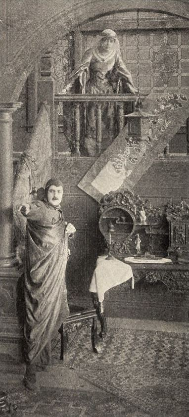 Still from the American drama film The White Rosette (1916), on page 110 of the March 1916 Cine-Mundial (American Spanish language magazine).